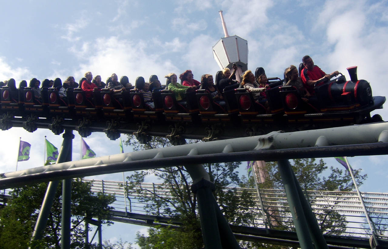 Lisebergbanan roller coaster at Liseberg. Taken June 2006